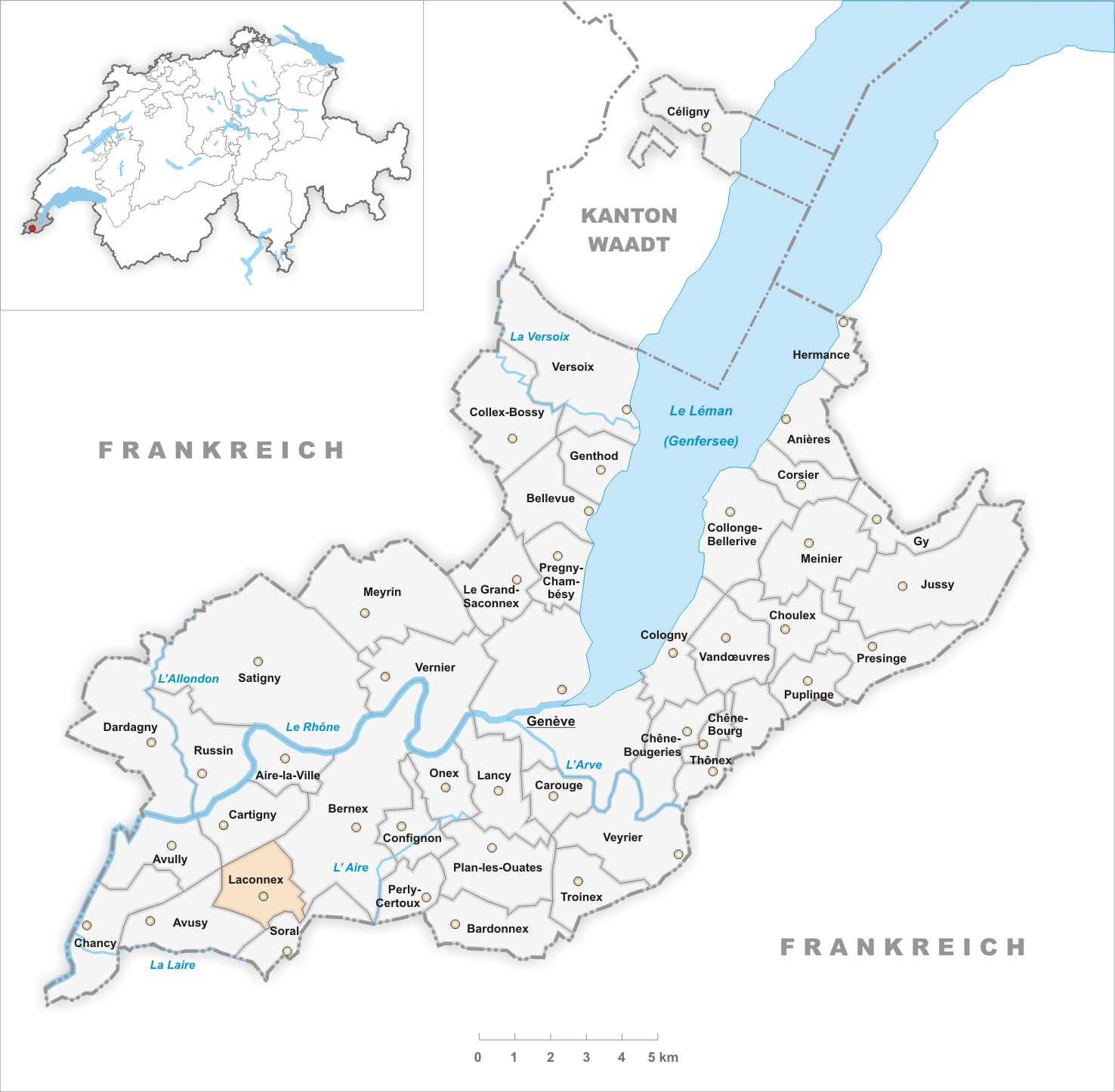 Municipality Laconnex